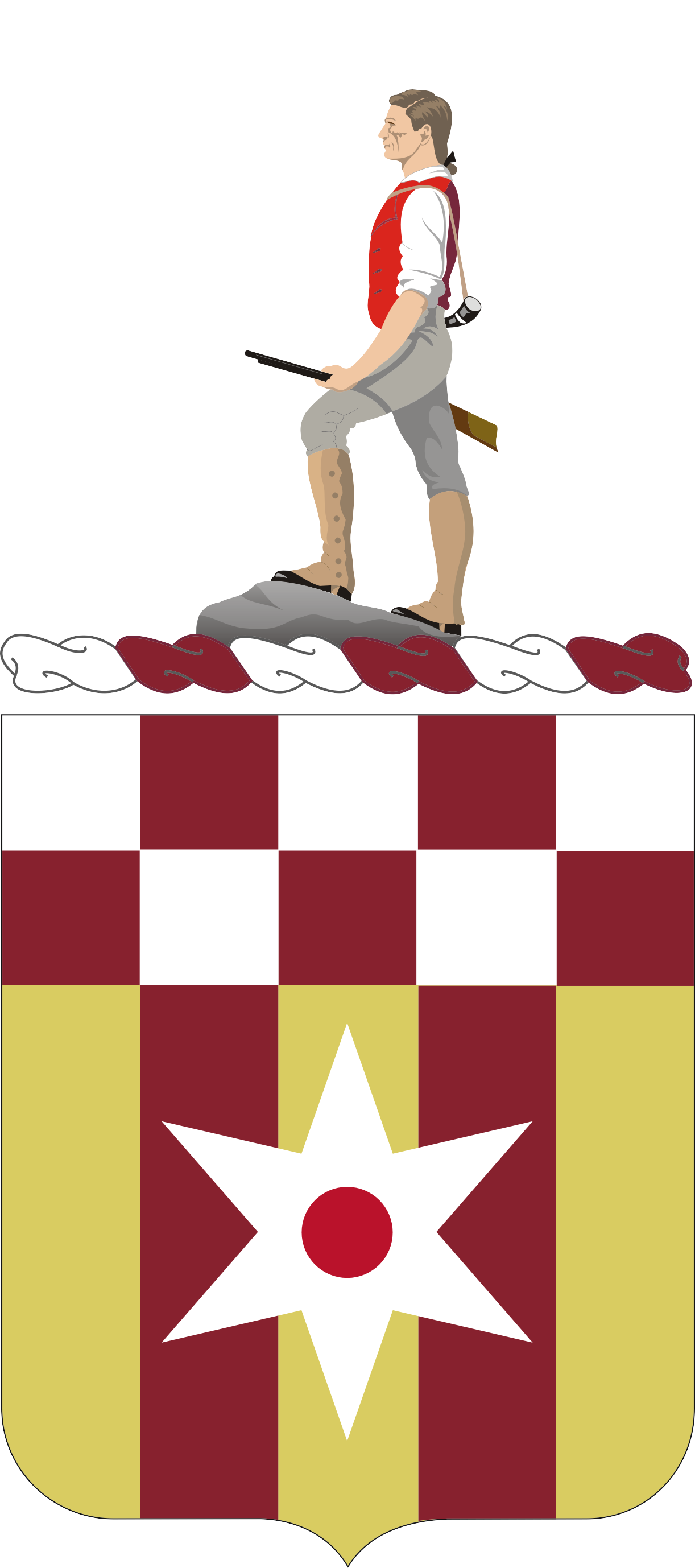 w:63rd Brigade Support Battalion Coat of Arms